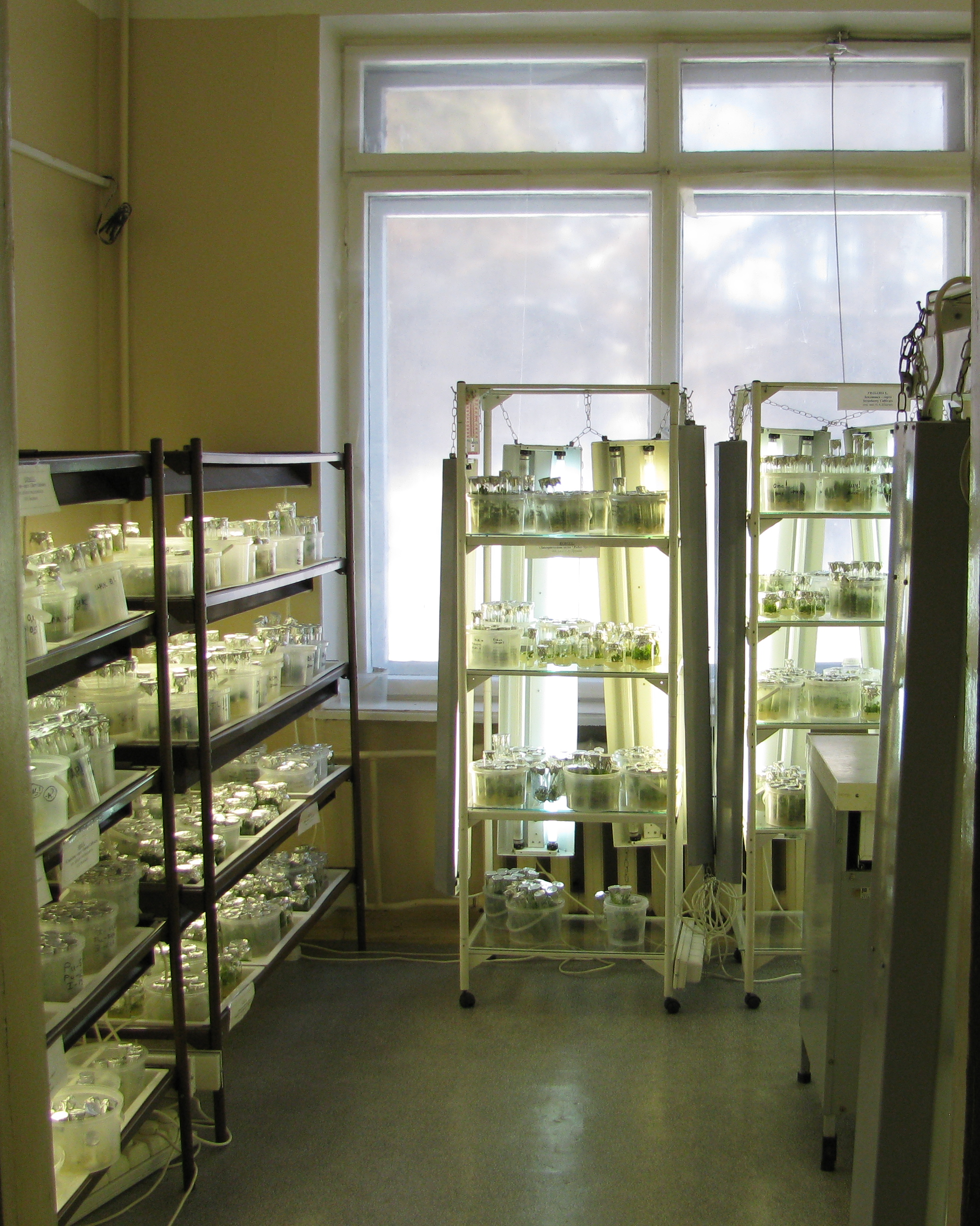 The in vitro Potato collection - VIR Department of Biotechnology - Pushkin, Saint Petersburg, Russia